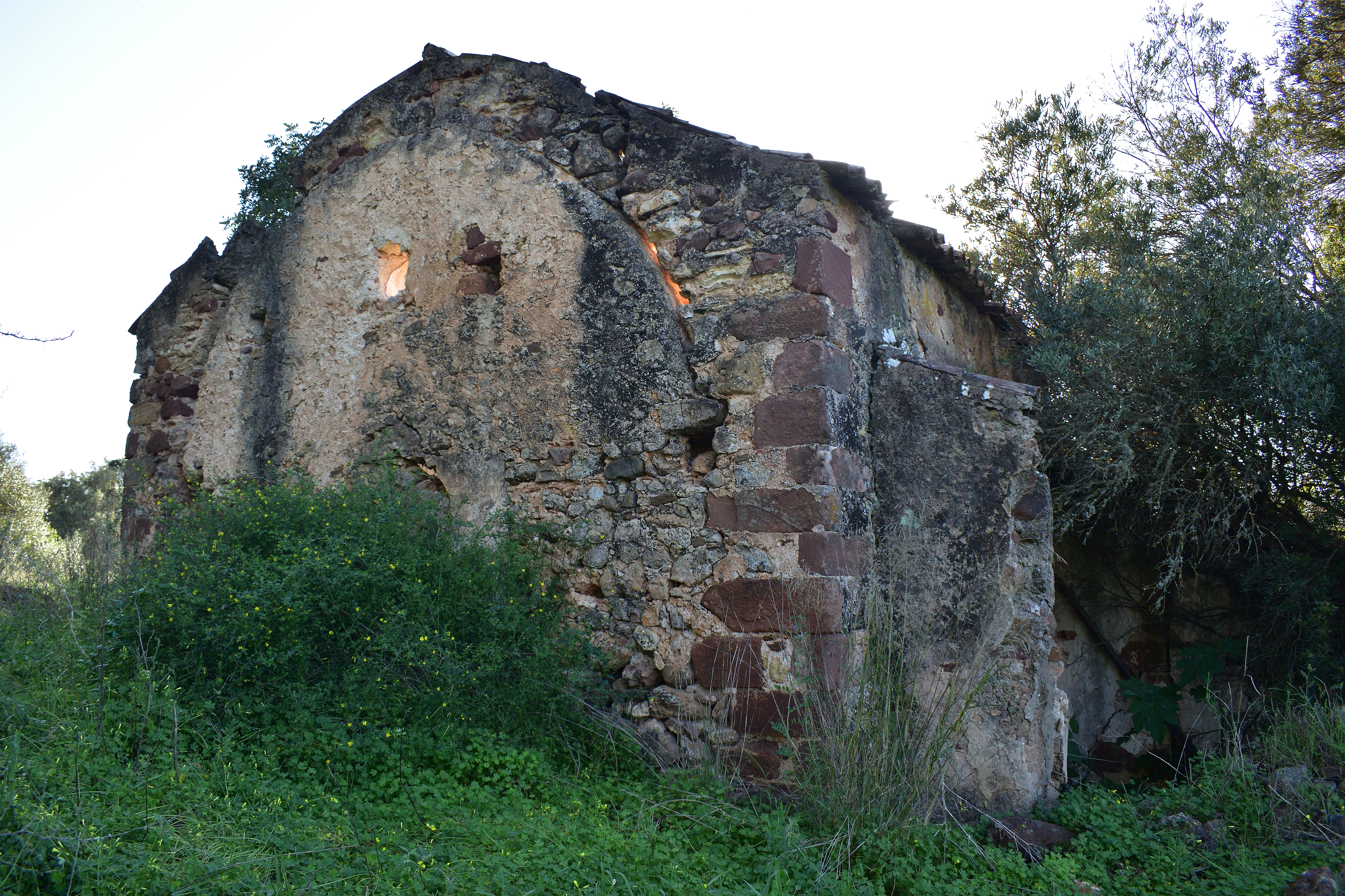 Back facade of Senhora do Verde church, in Algarve, Portugal.